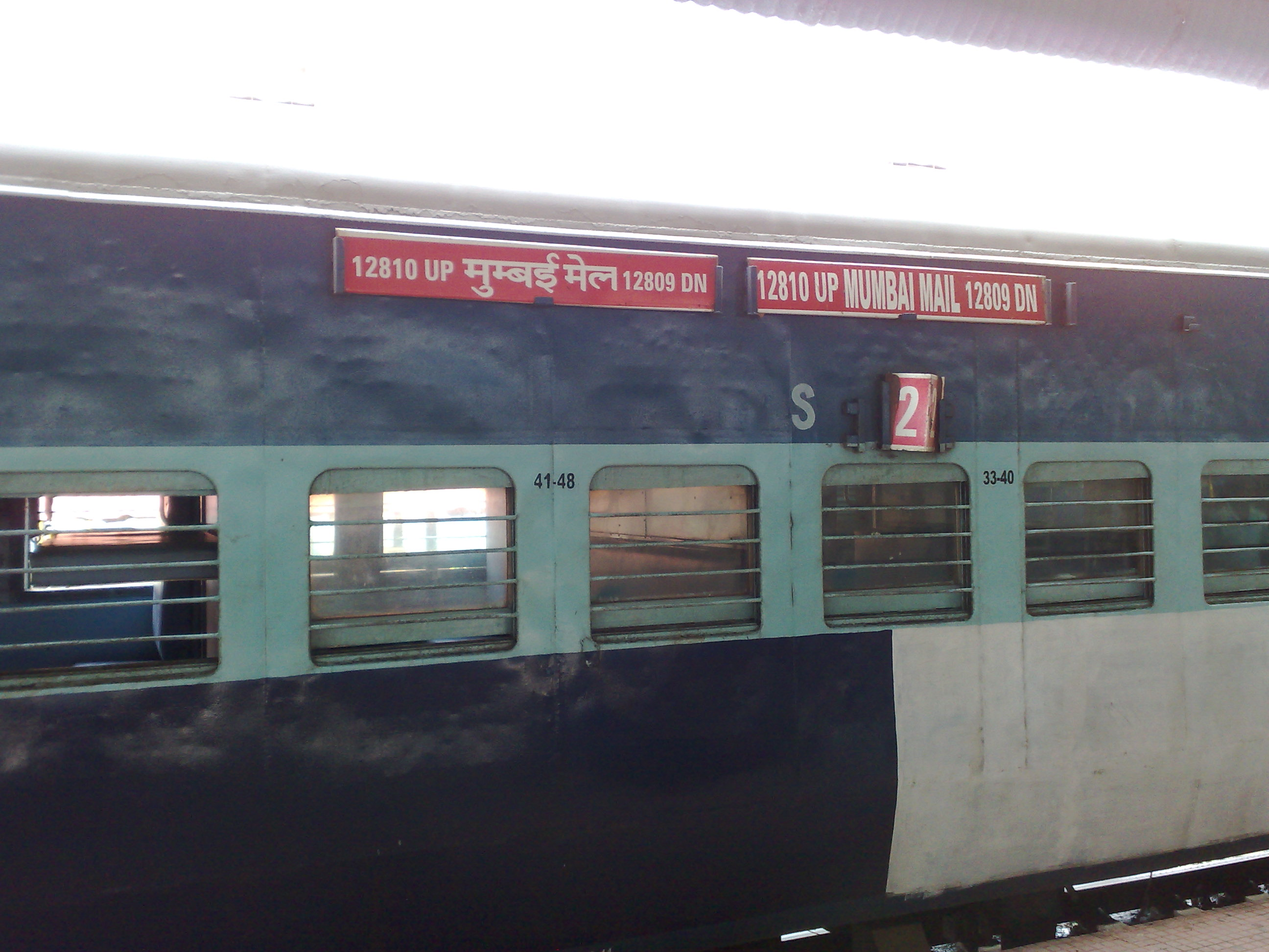 Howrah Mumbai Mail - Sleeper Coach